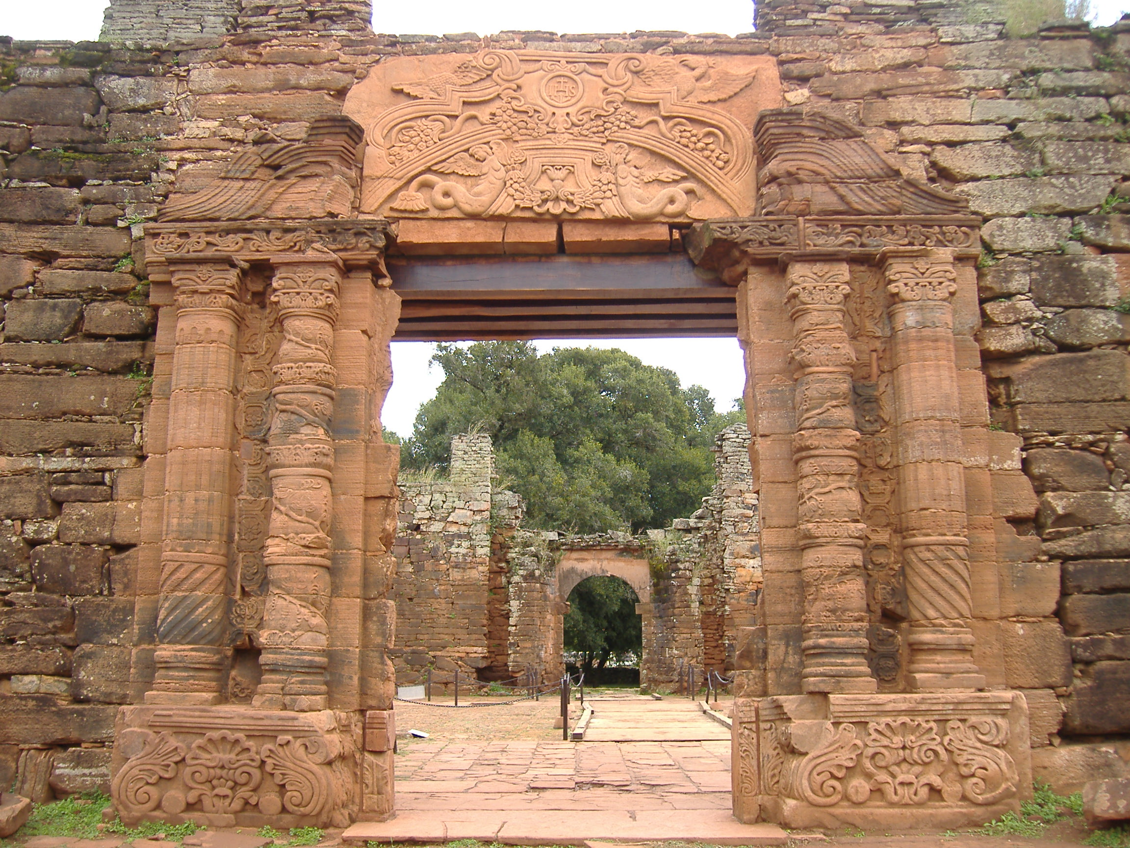 A door of the church of the Jesuit-Guarani mission of San Ignacio Miní, in Misiones, northeastern Argentina.